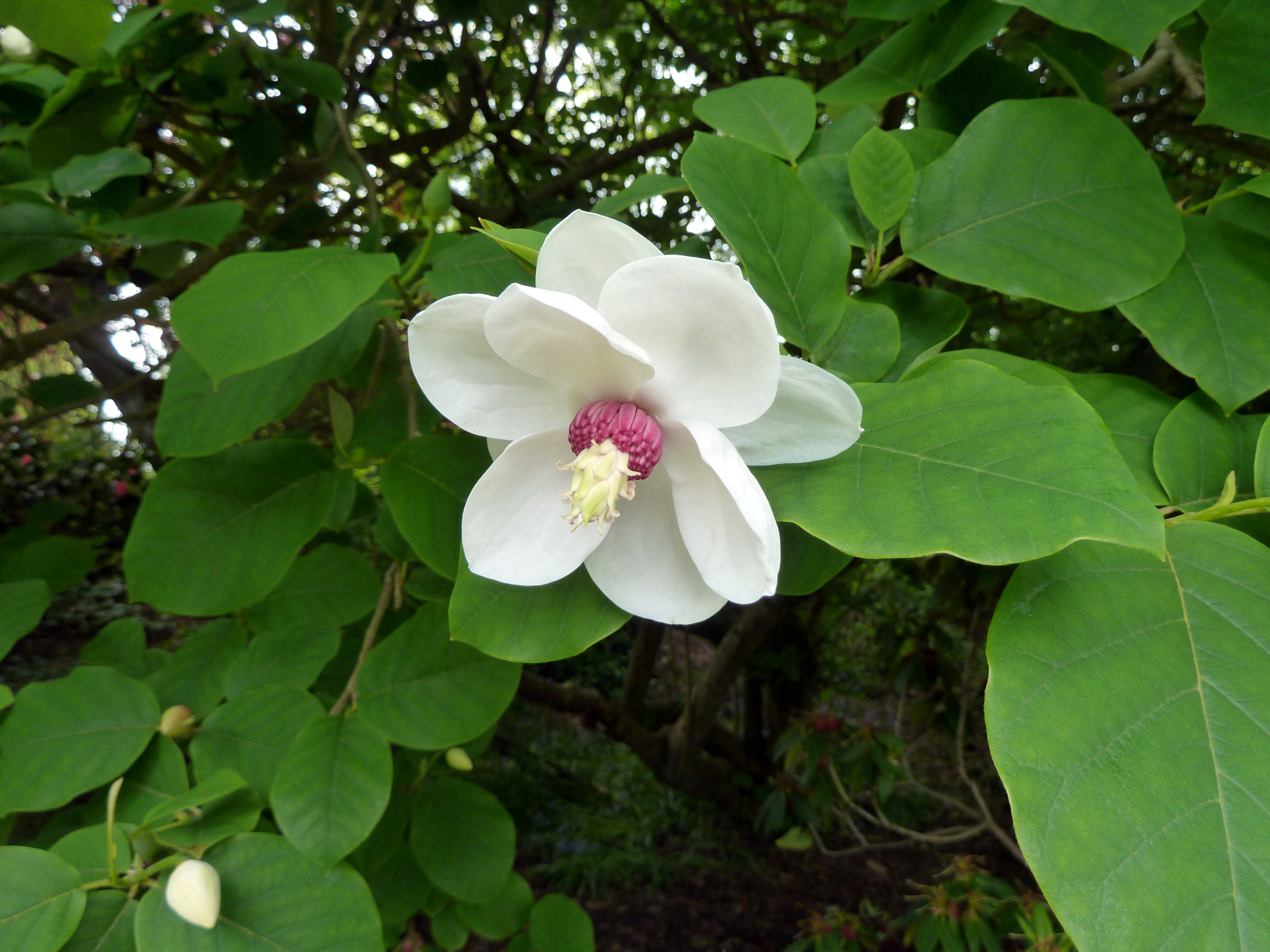 Magnolia sieboldii, Oyama Magnolia, on the Camellia Path next to the golf course in Stanley Park, on May 22.